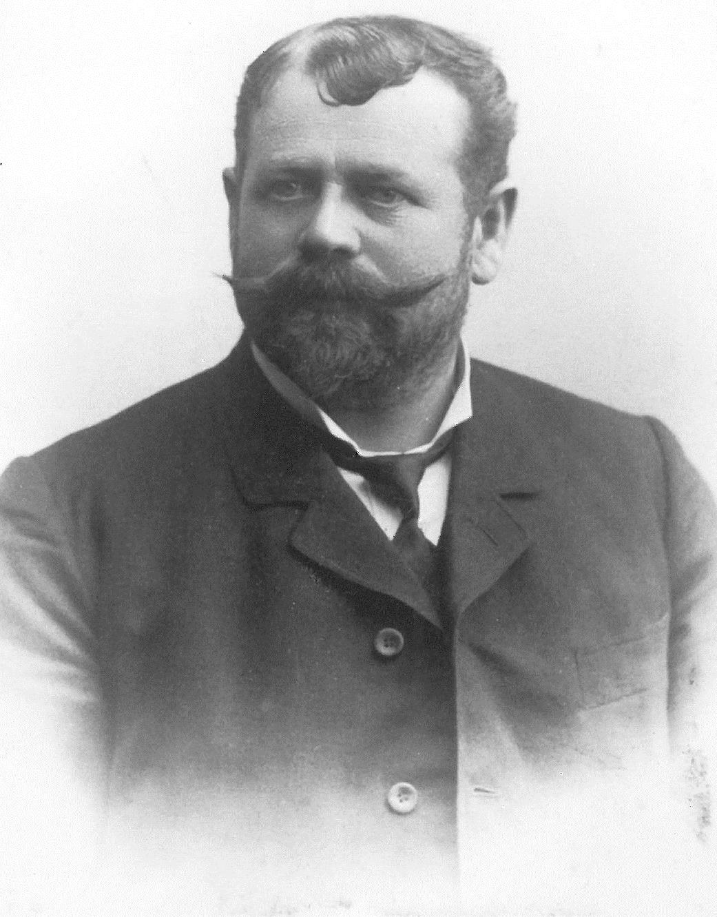 Josef Mohn (1866-1931), Flaschnermeister und Erfinder